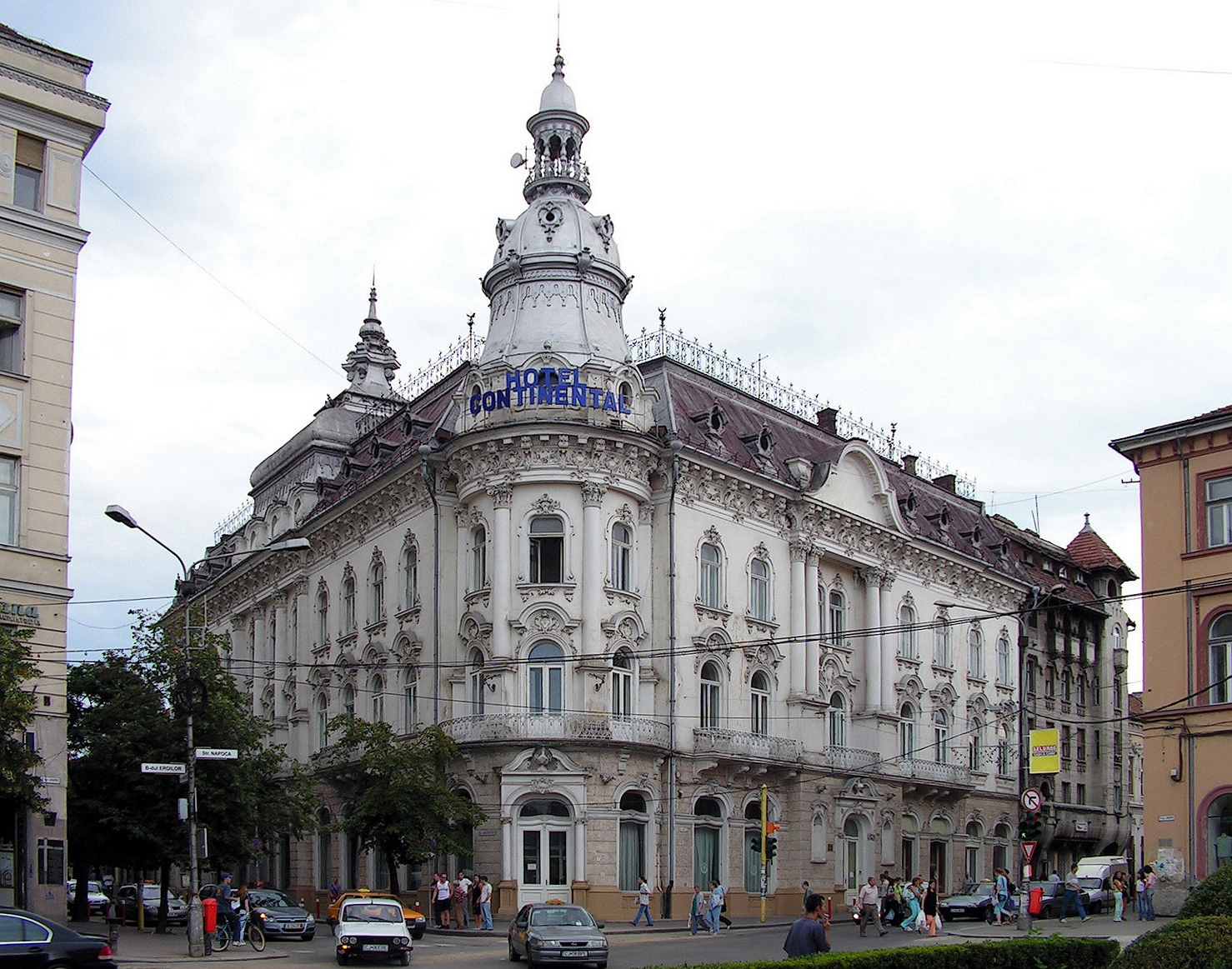 The New York Palace in Cluj-Napoca (today Continental Hotel)